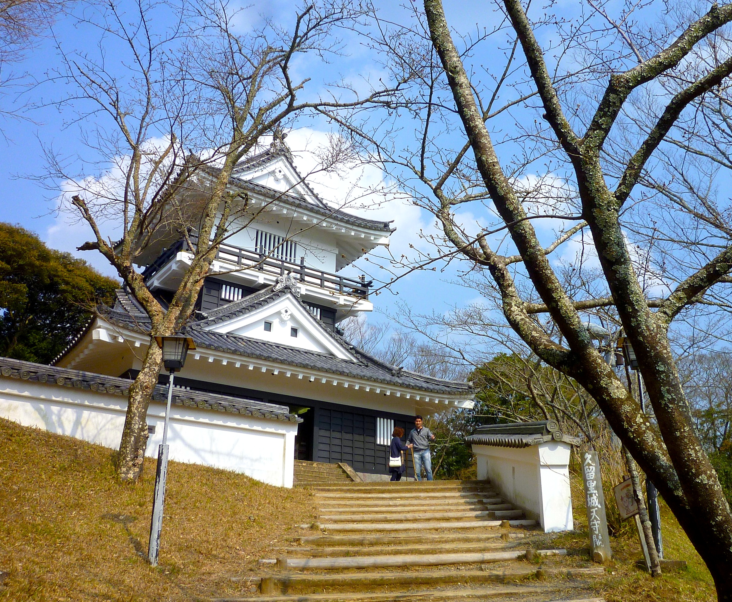 Kururi Castle (久留里城) with two people for scale.